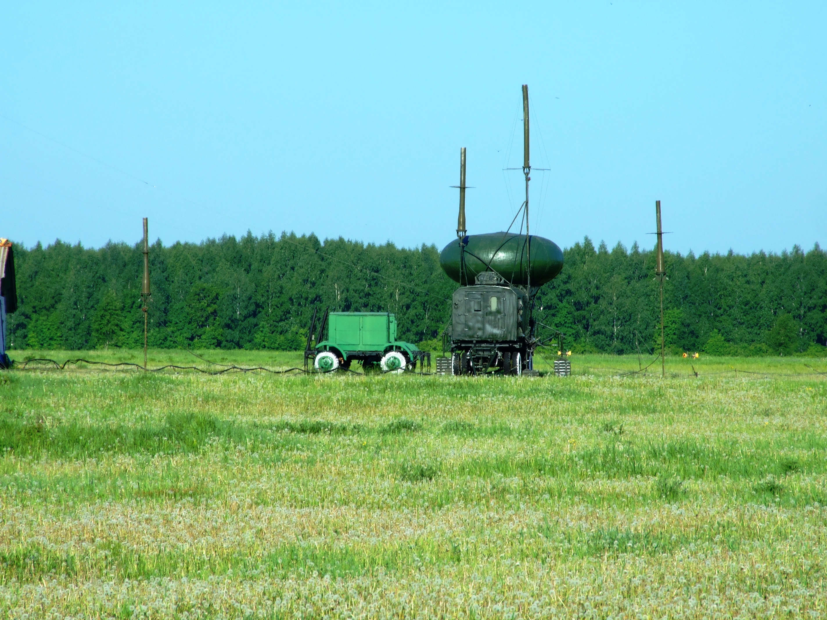 A short-range radionavigation system model RSBN-4N (РСБН-4Н) near Moscow in Russia.